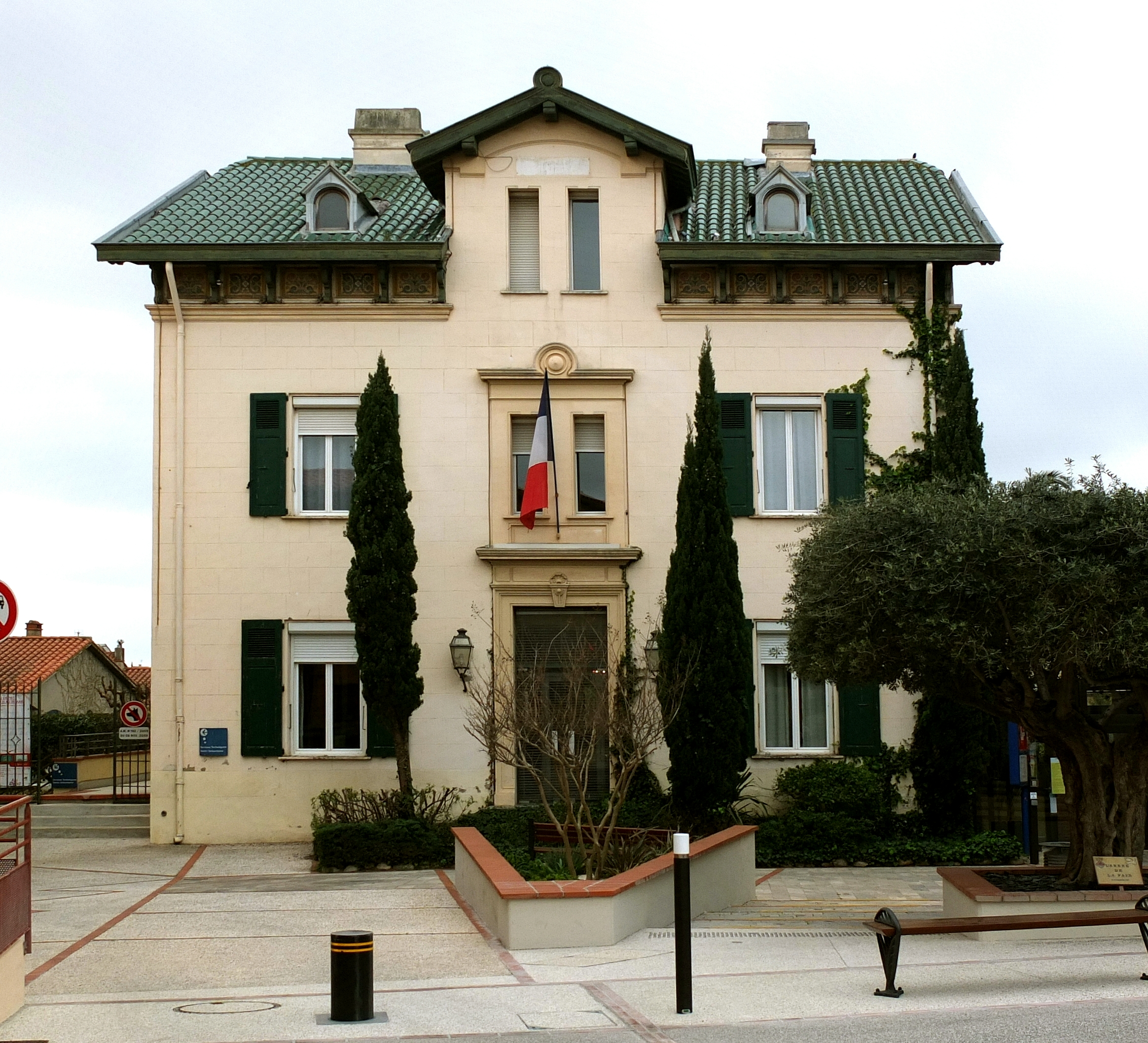 Town hall of Cabestany, France (Exp. N).